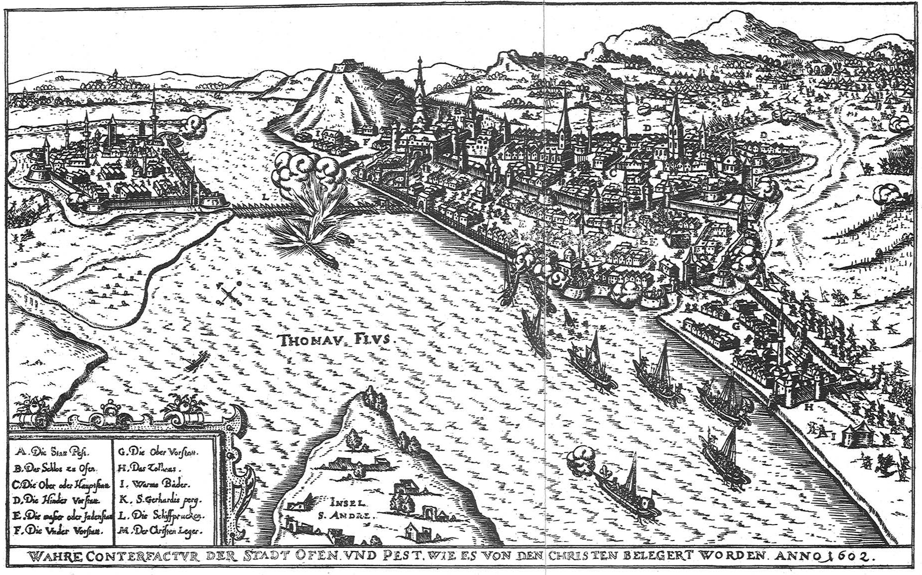 Battle of Pest and siege of Buda in 1602. Margaret Island is on the image as Isl. s. Andre. WAHRE CONTERFACTVR DER STADT OFEN VND PEST WIE ES VON DEN CHRISTEN BELEGERT WORDEN ANNO 1602.